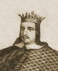 António, Prior of Crato.